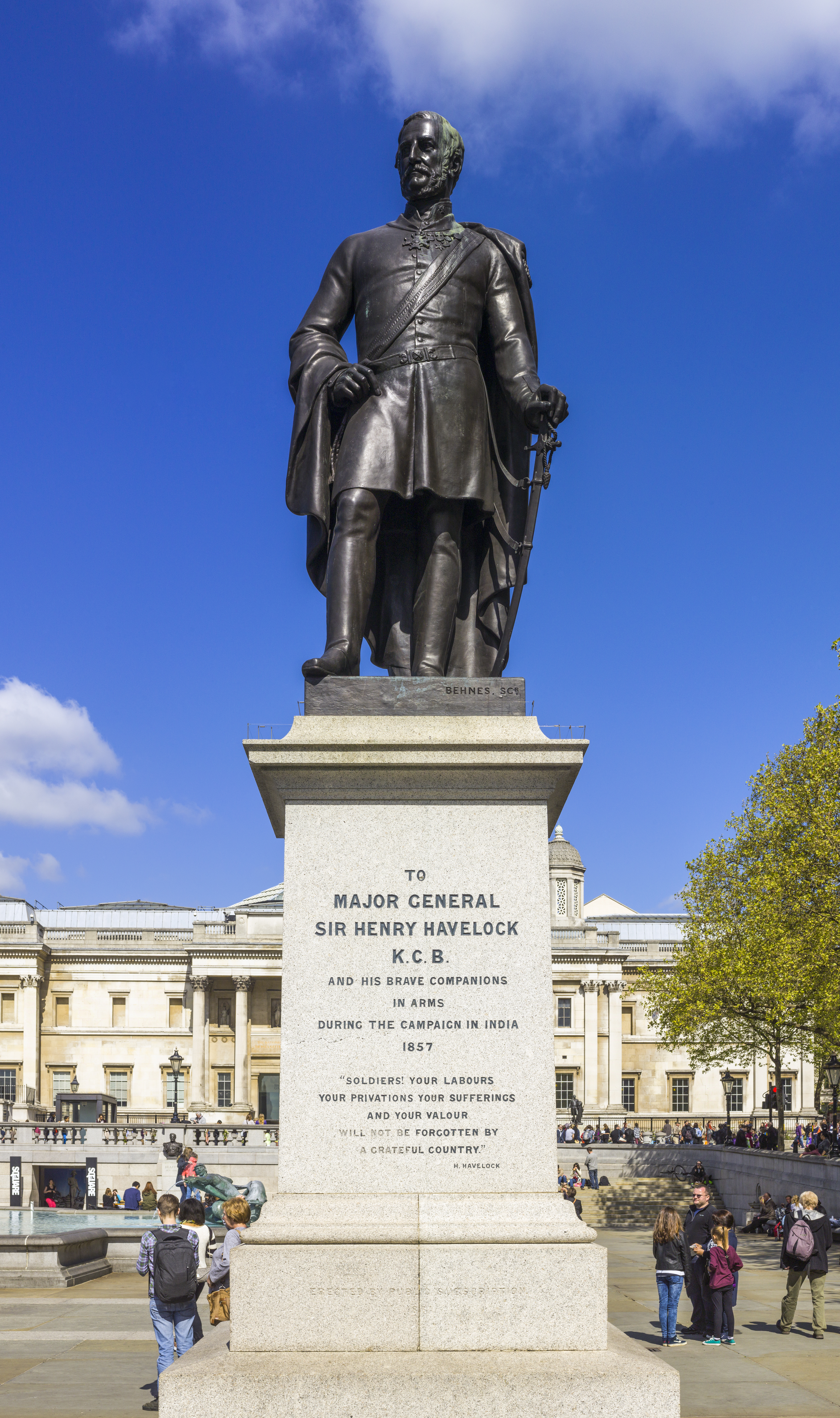 Statue of Henry Havelock Wikidata has entry Q18162525 with data related to this item.